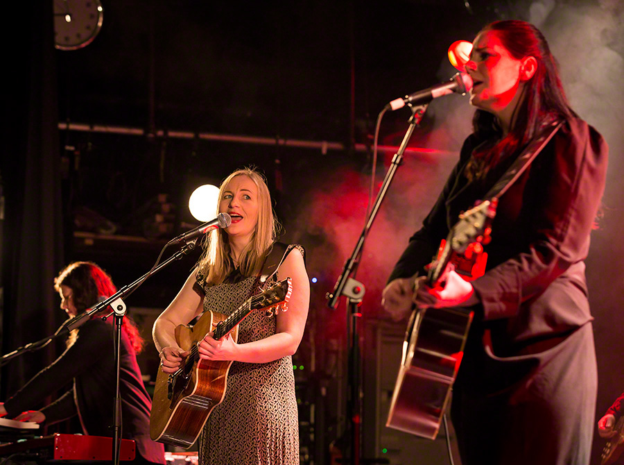 Reunion concert with Ephemera at Parkteatret in Oslo on 16.04.2016. Lineup:Jannicke Larsen (keyboard)Ingerlise Størksen (guitar)Christine Sandtorv (guitar)